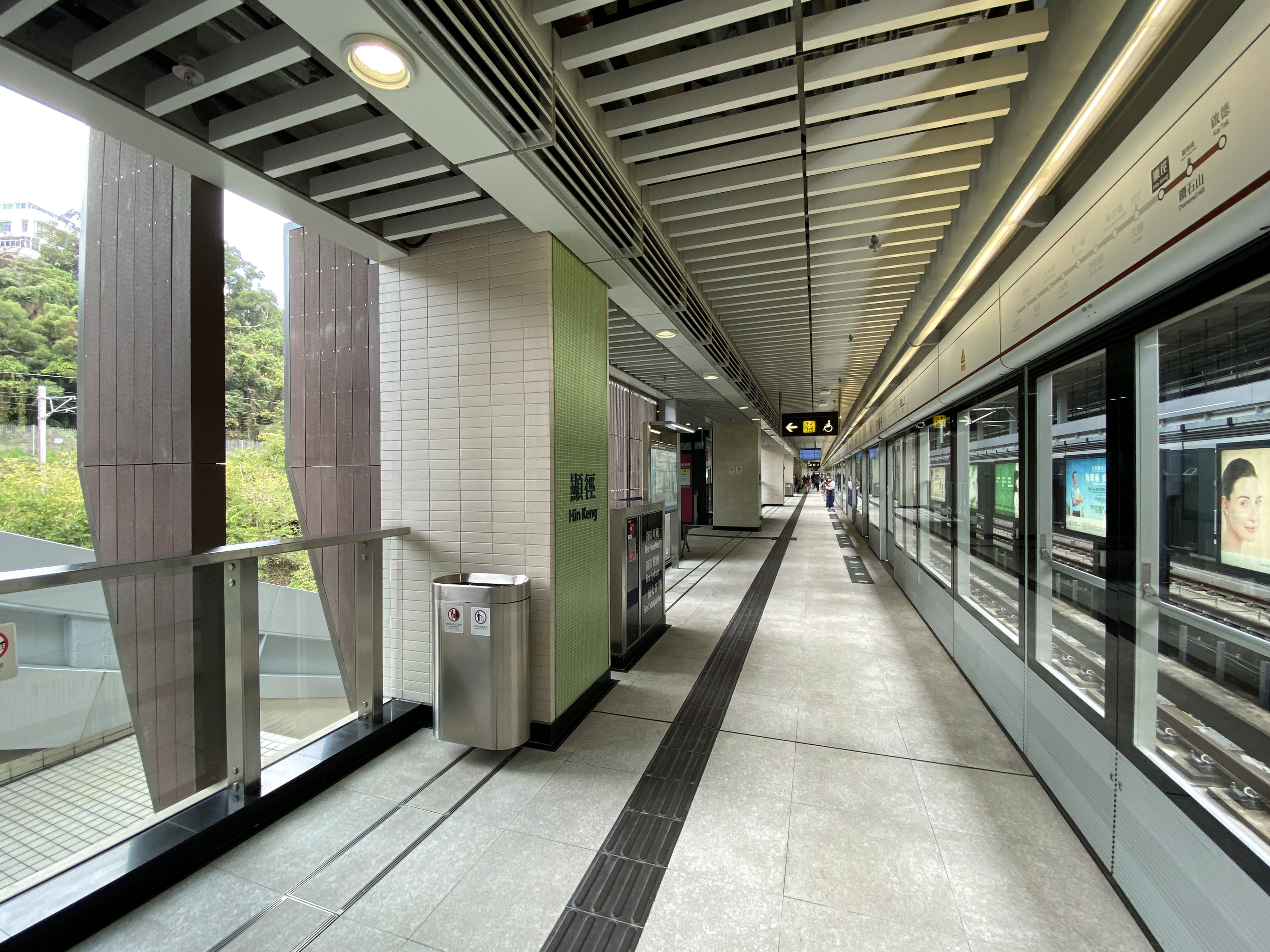 Hin Keng Station Platform